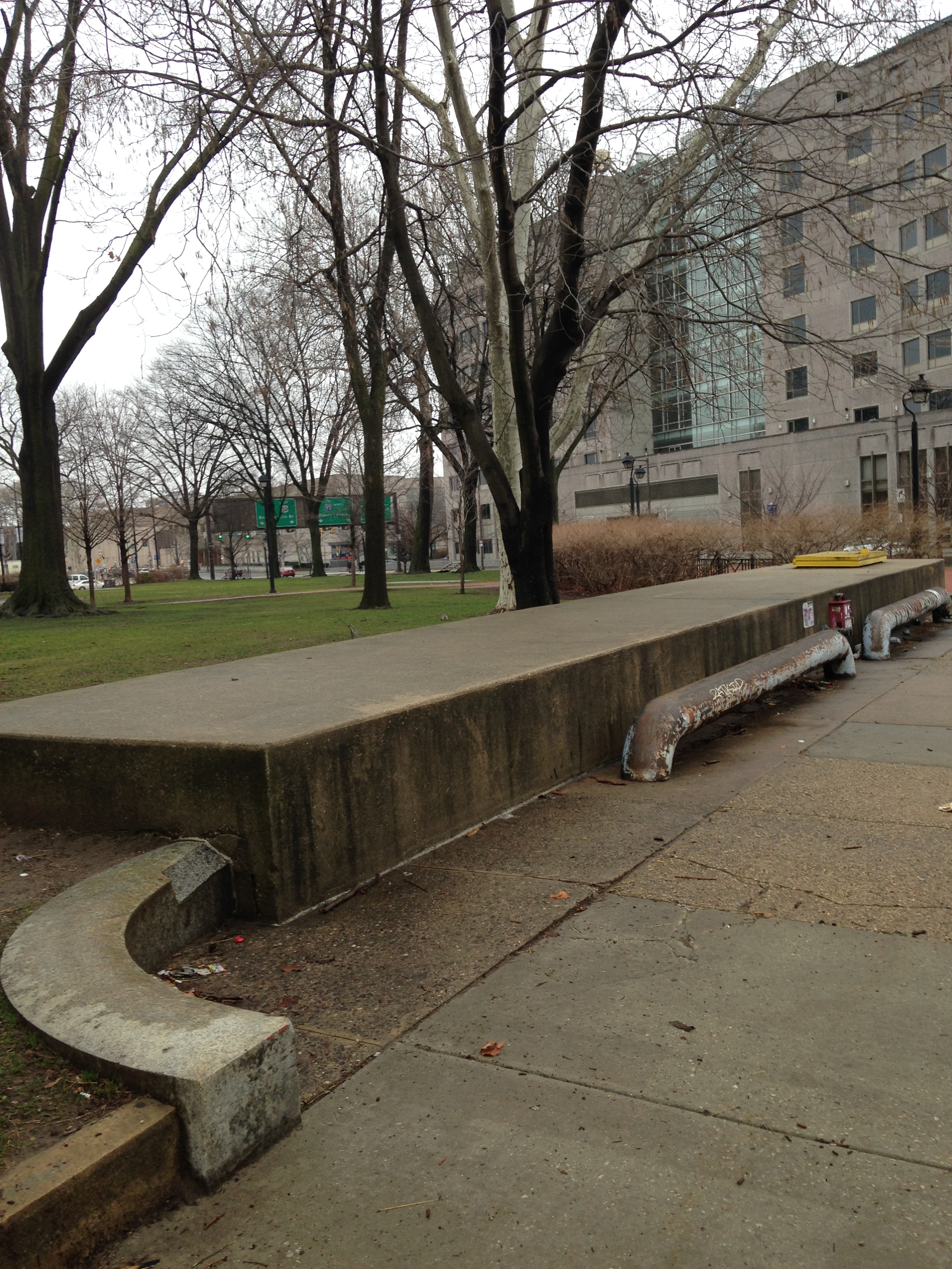 Franklin Square Station